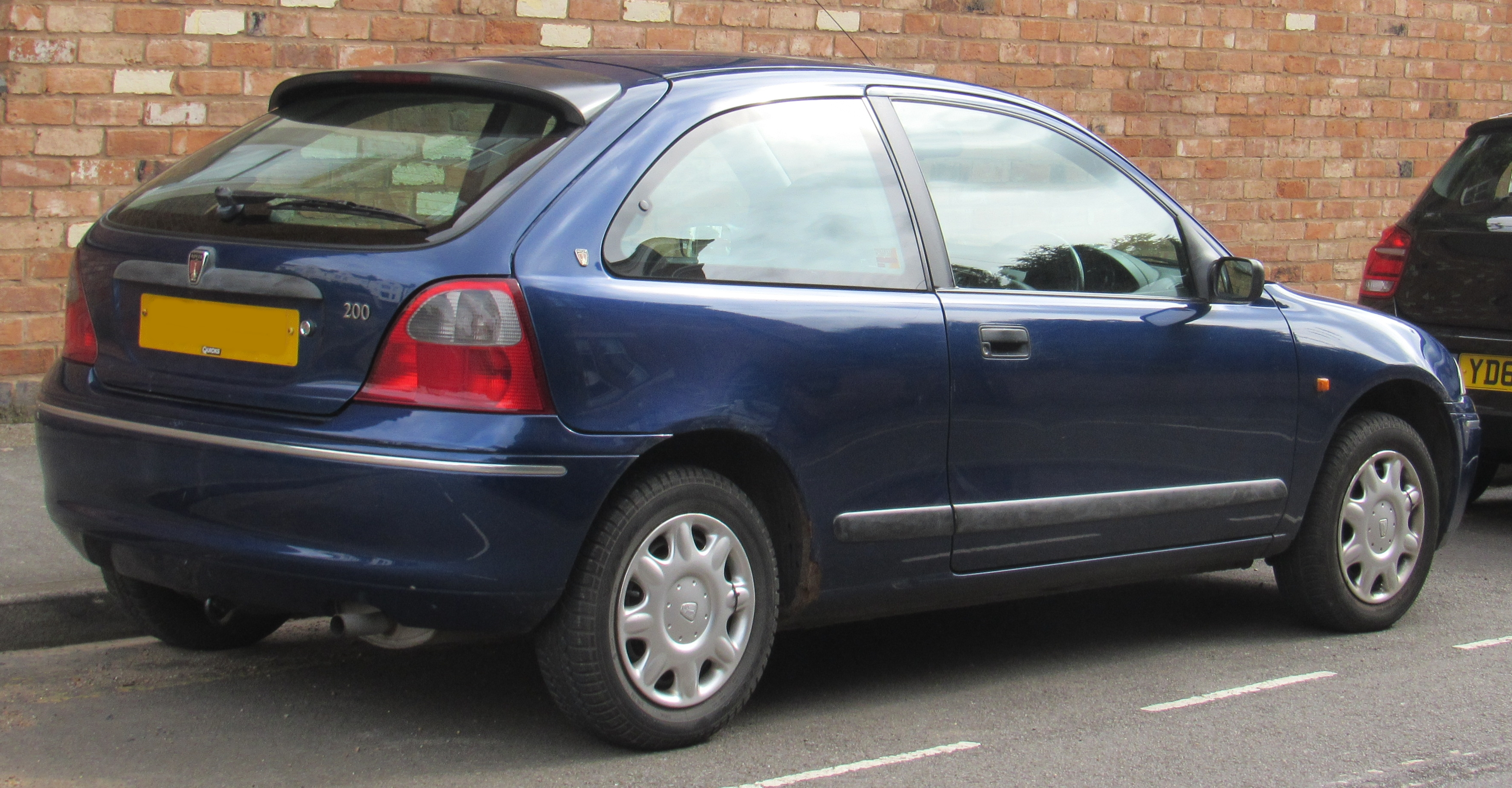 1998 Rover 214 Si 1.4 Rear Taken in Leamington Spa